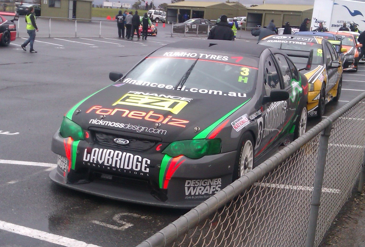 The Ford BF Falcon of Shae Davies at Mallala Motor Sport Park on 21 April 2013. The car was competing in the Round 2 of the 2013 Kumho Tyres V8 Touring Car Series